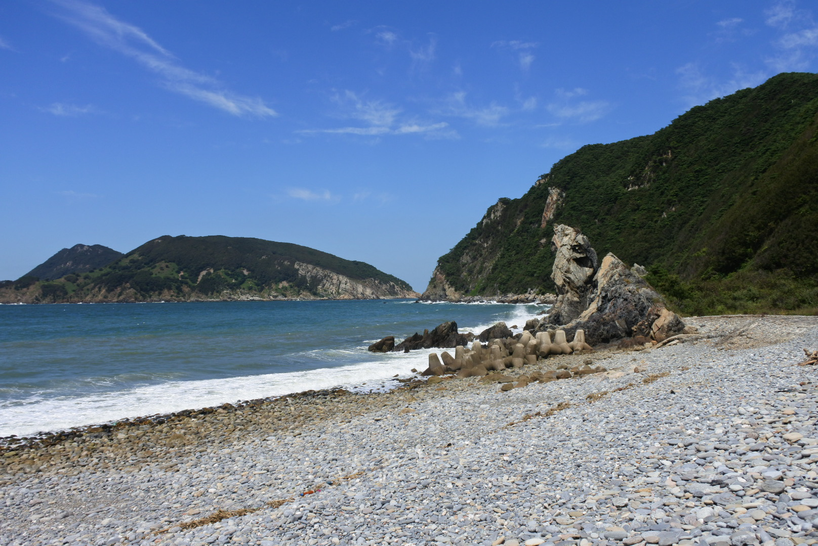 Neungdong Jagalmadang (a scenic pebble beach) in Deokjeok Island in Incheon, South Korea